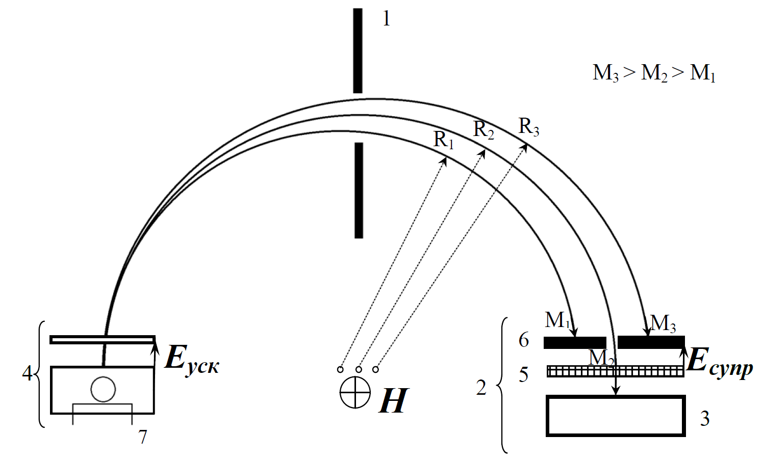 Scetch of mass-spectrometric camera of a helium leak detector